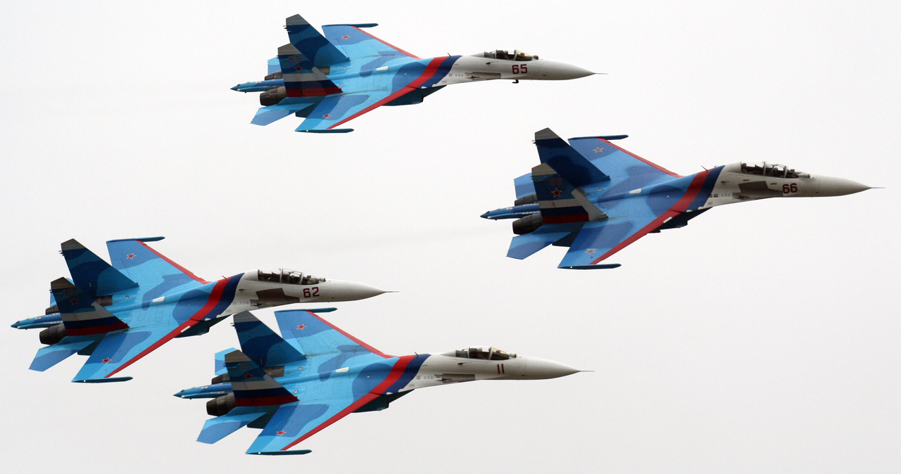 Sukhoi Su-30 Russia Air Force